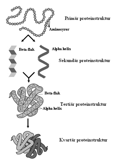 Swedish language version of Image:Protein-structure.png, edited by Konstantin